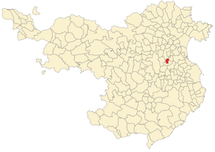 Vilaür